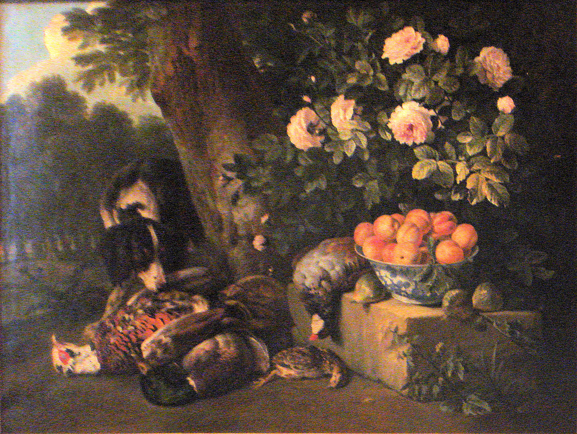 Nature_morte_au_gibier_et_a_la_coupe_de_porcelaine_Francois_Desporte_circa_1700_1710.